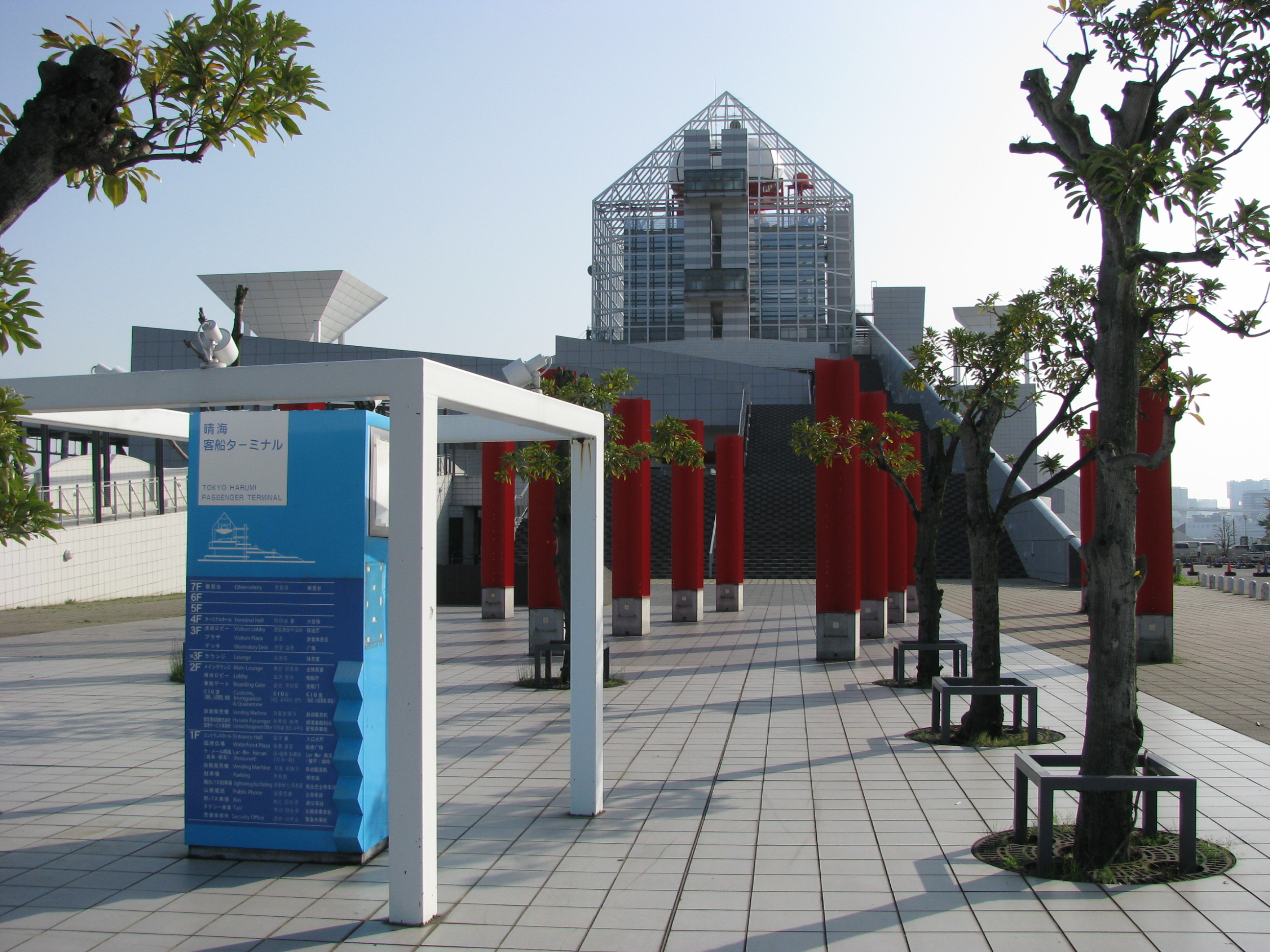 The Harumi Passenger Ship Terminal at Tokyo Port, in Tokyo, Japan.